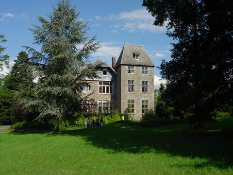 Château Borchamps, Aye, Marche-en-Famenne, Luxembourg, Belgium